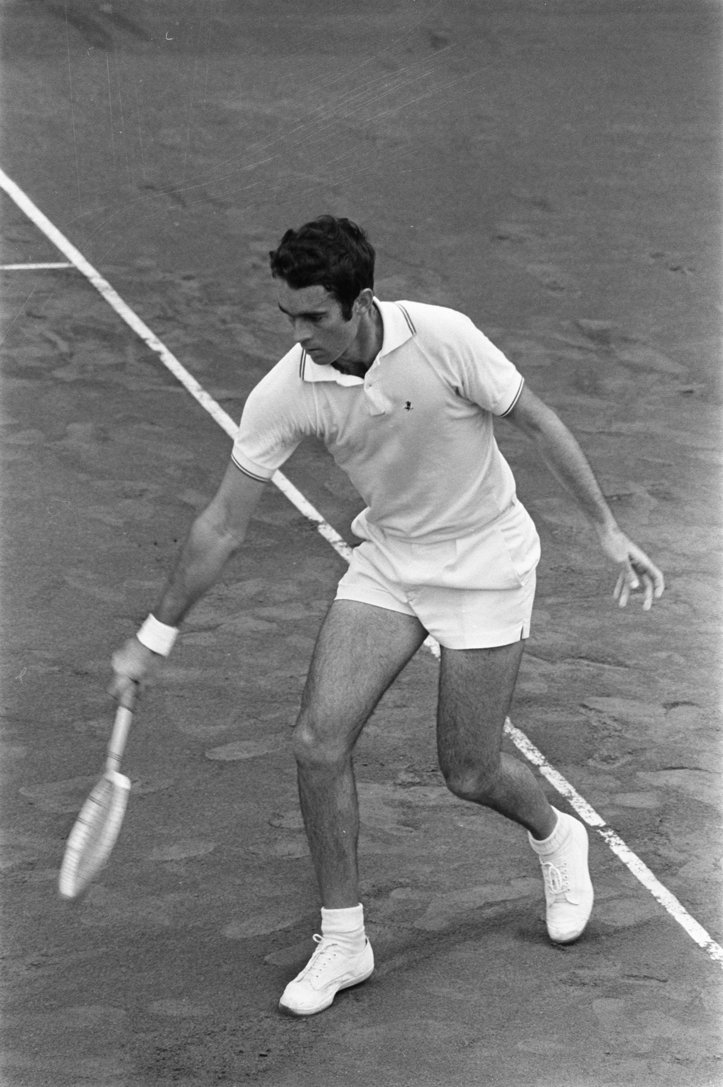 Australian tennis player Bill Bowrey at the 1970 Dutch Open tournament in Hilversum.